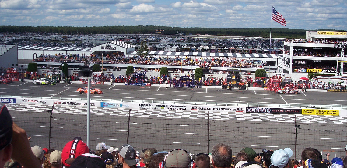 Pennsyvania 500